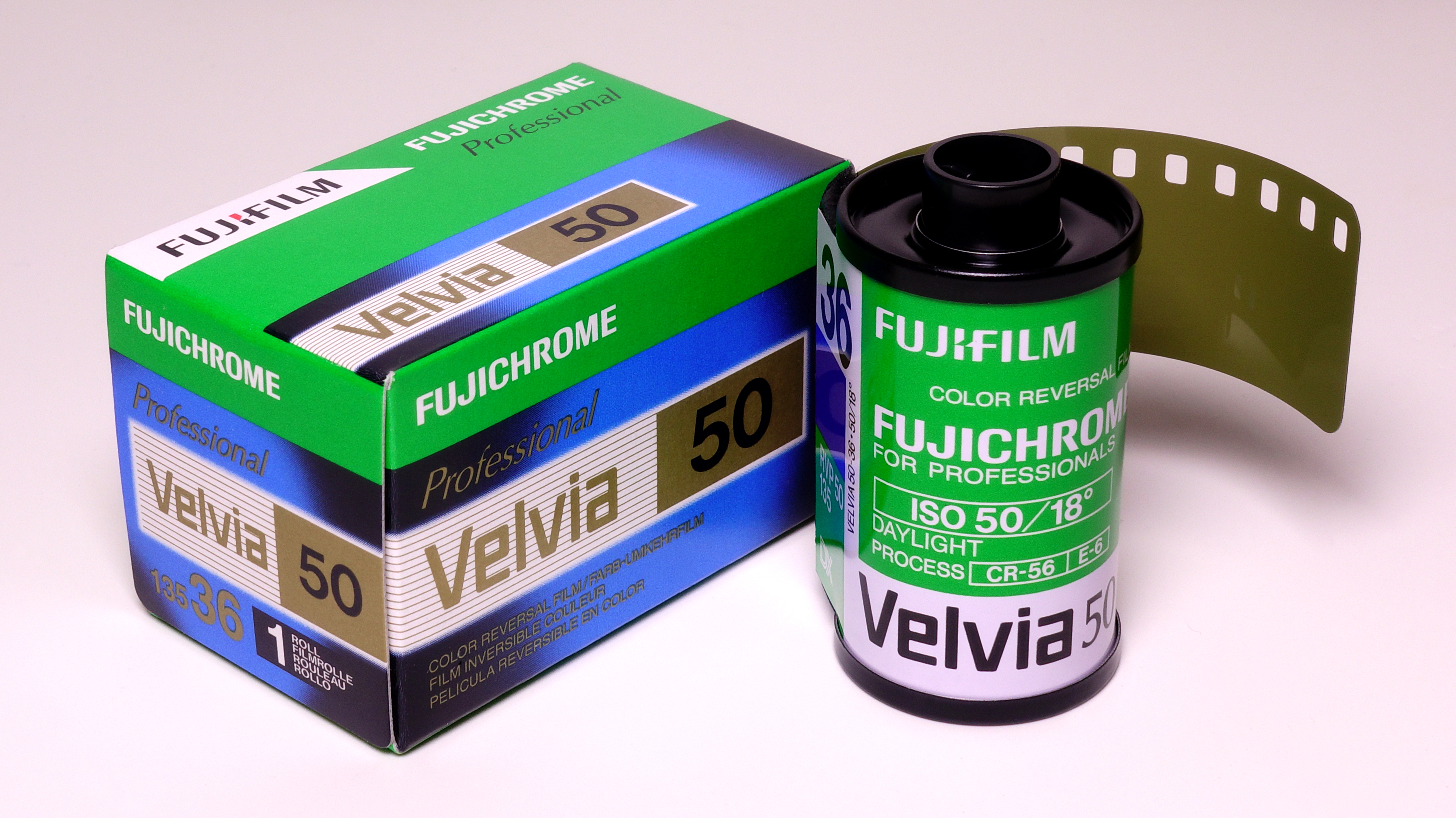 Fujichrome Velvia 50 color reversal film, second version of famous Velvia.